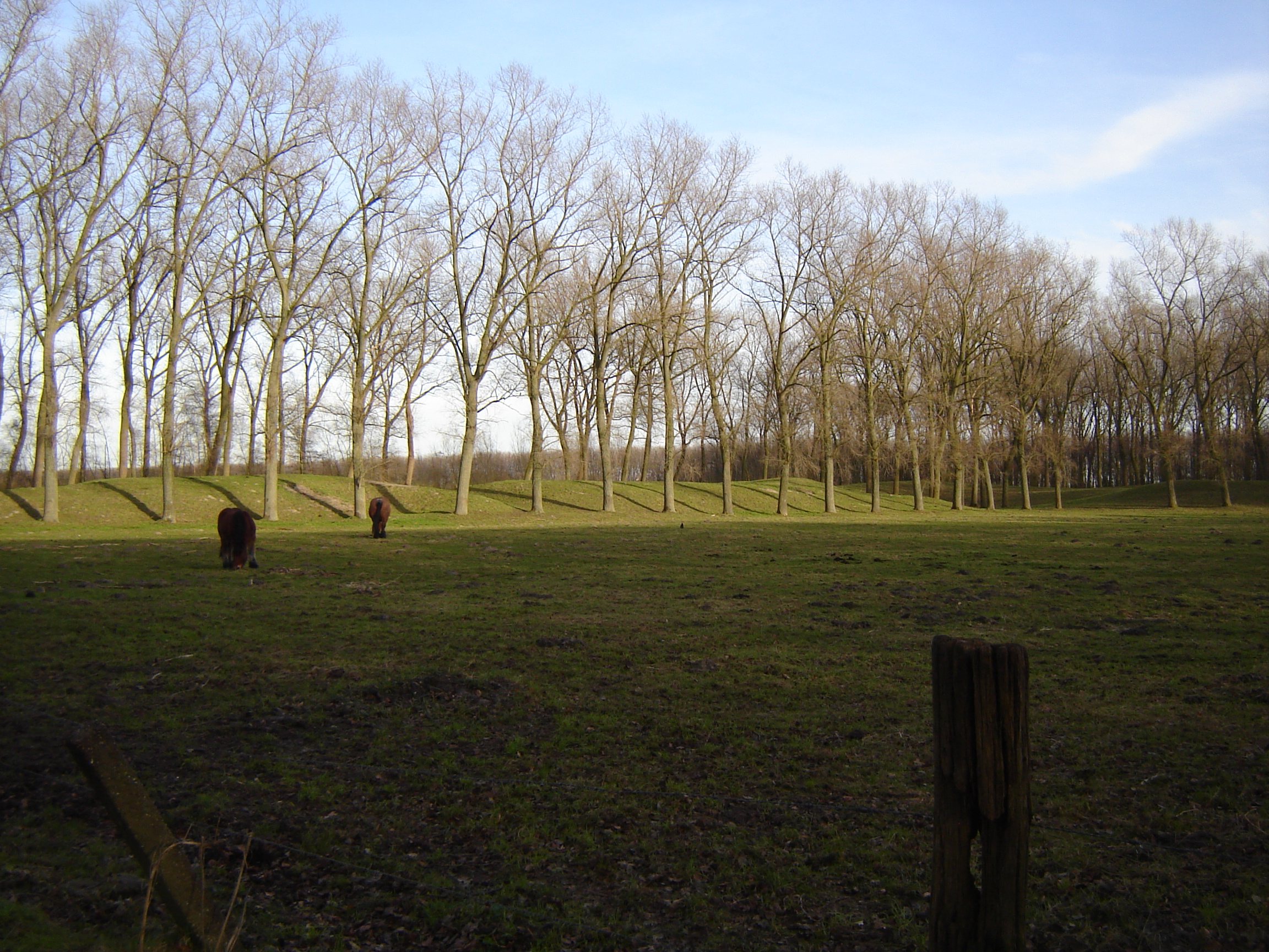 Fort van Beieren in Koolkerke. Central part of the fortress. Koolkerke, Brugge, West Flanders, Belgium.